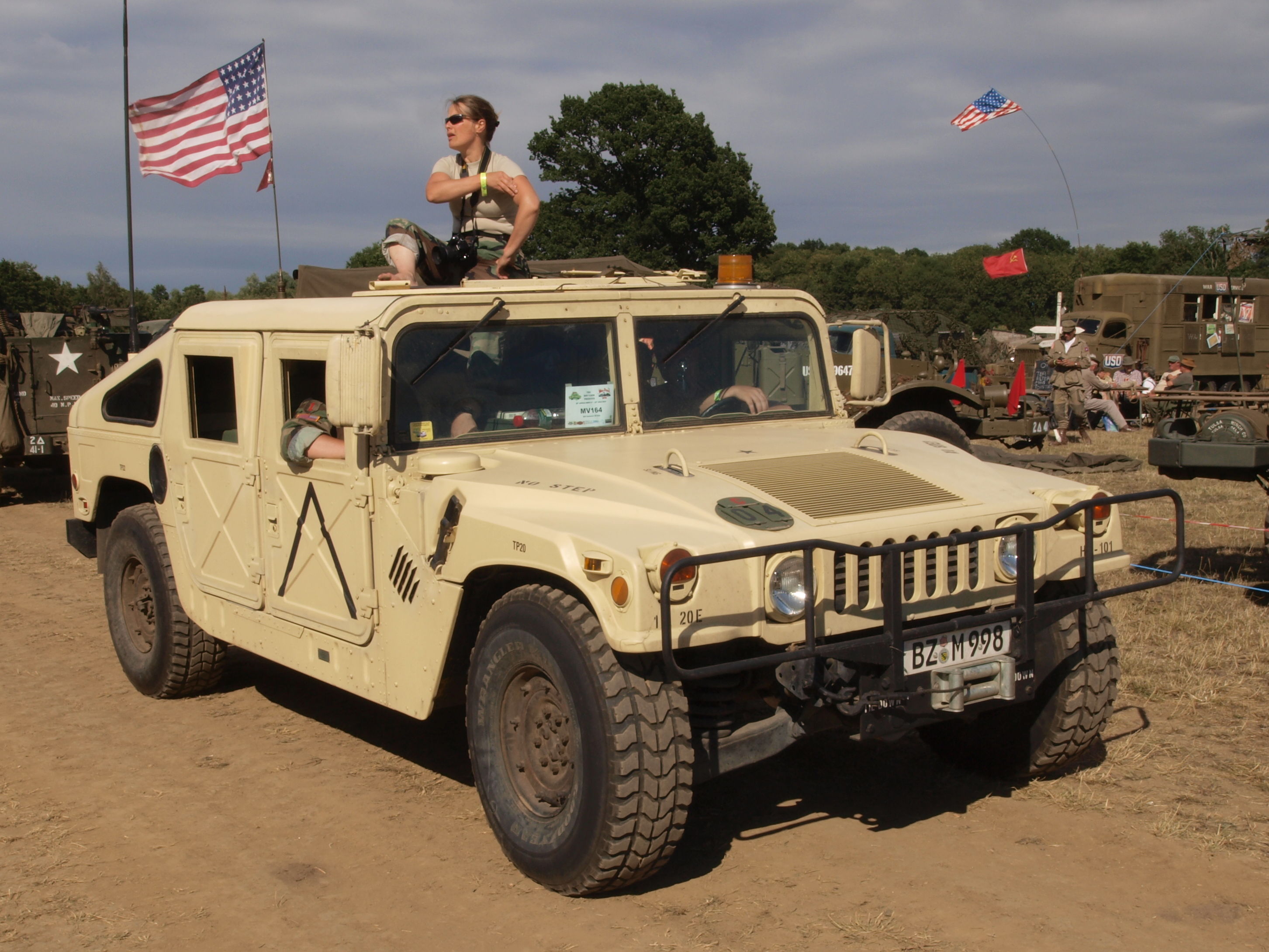 AM General (Hummer) (1987) owned by Gerald Friese.